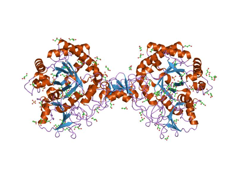 Cartoon representation of the molecular structure of protein registered with 1ur9 code.